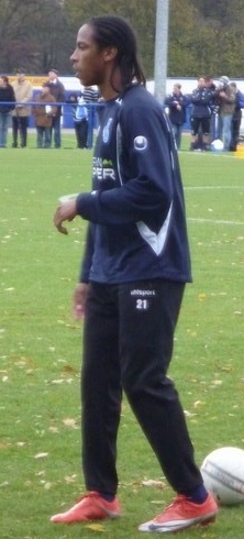 Footballer Caiuby at Training, 2009